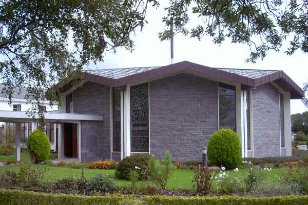 Colaiste Eamann Ris Chapel